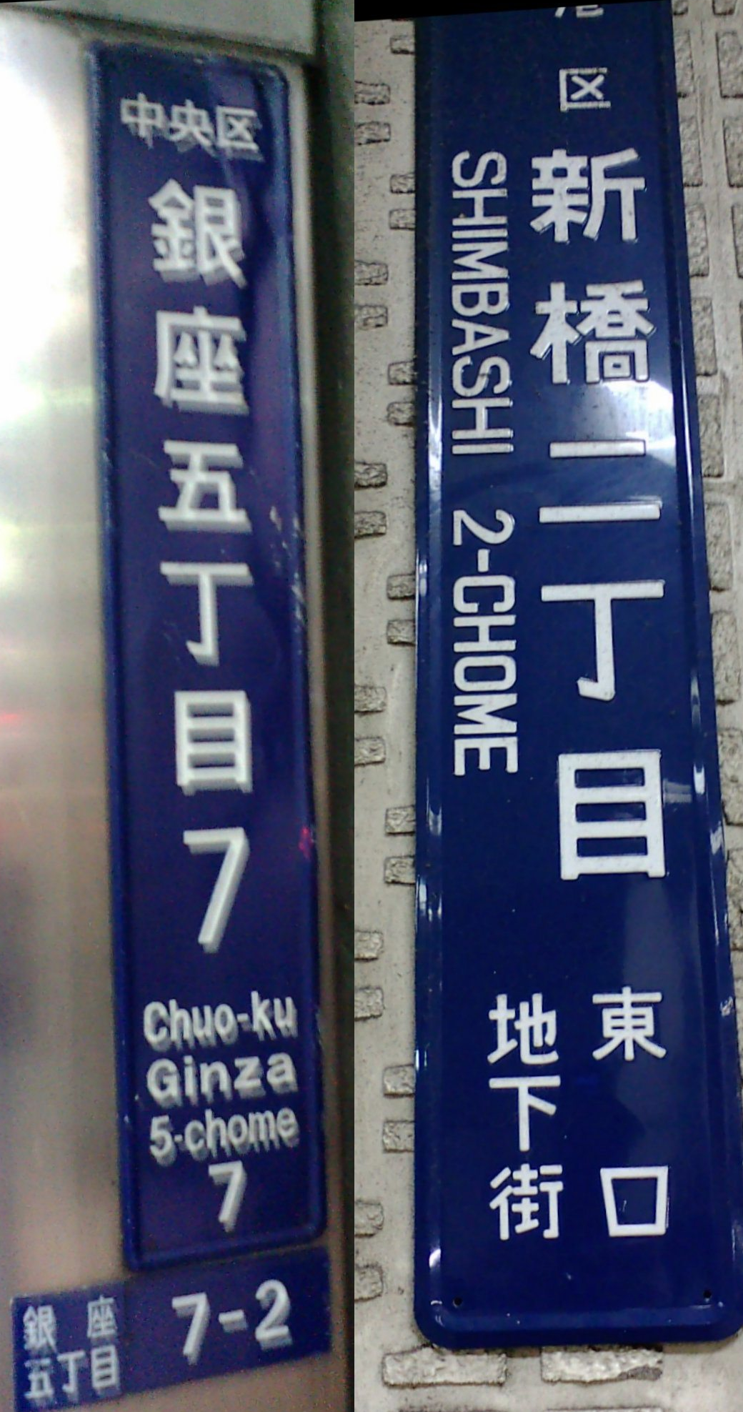 Ginza and Shimbashi_Gaiku_plate in Tokyo with English indication.